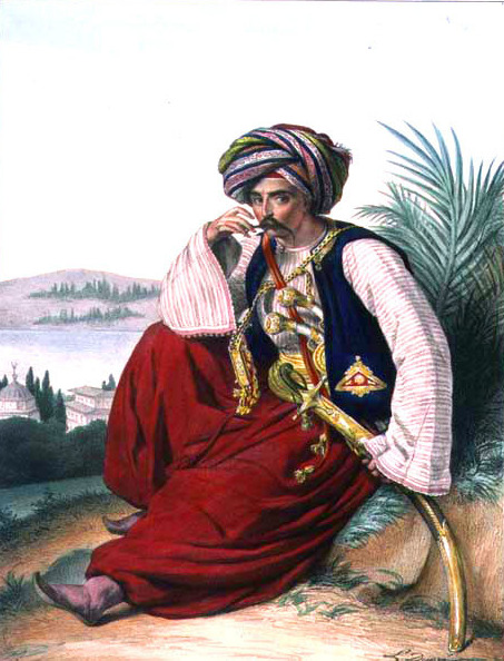 Lithograph of a Mamluk.[1]